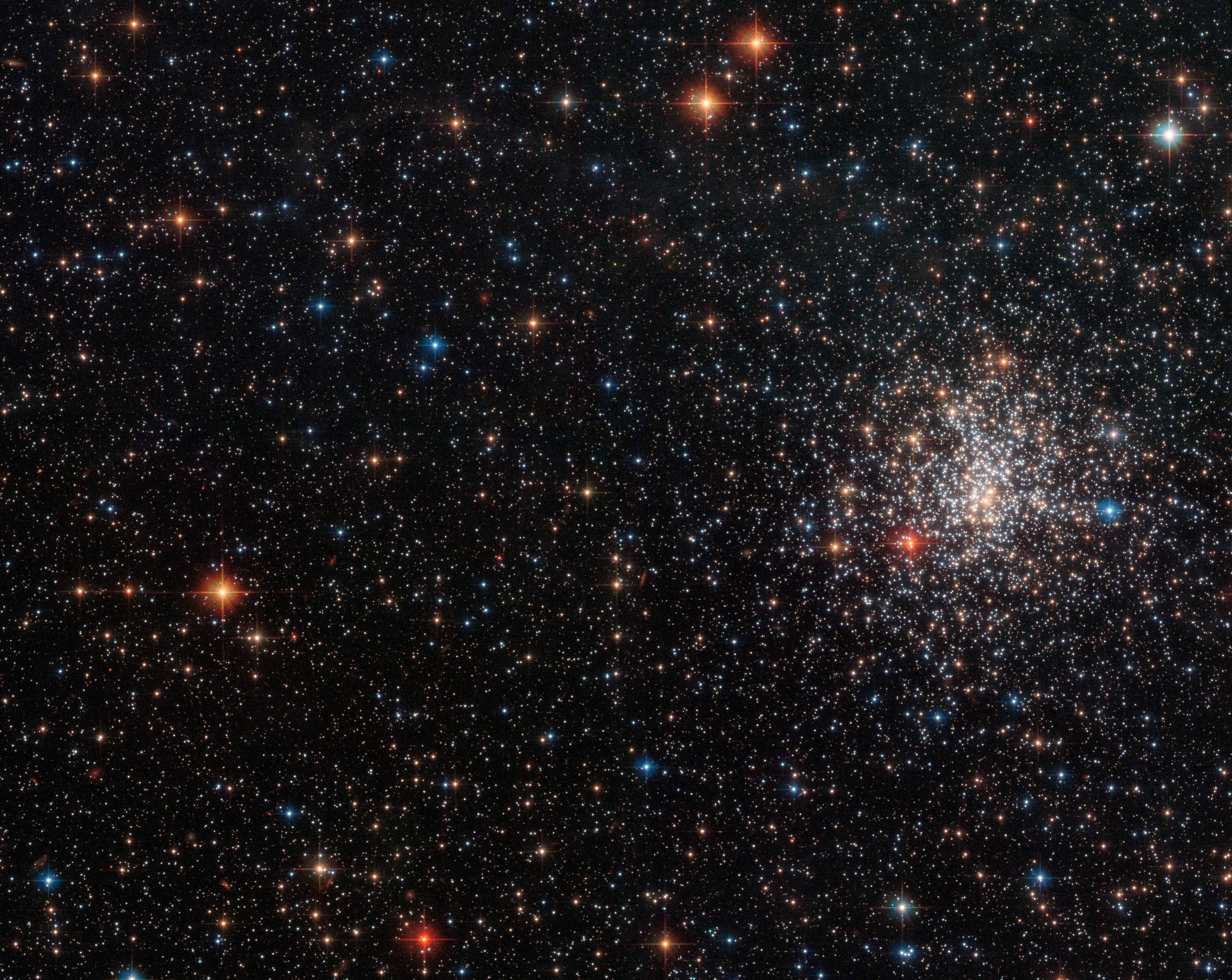 This Picture of the Week shows the colourful globular cluster NGC 2108. The cluster is nestled within the Large Magellanic Cloud, in the constellation of the Swordfish (Dorado). It was discovered in 1835 by the astronomer, mathematician, chemist and inventor John Herschel, son of the famous William Herschel. The most striking feature of this globular cluster is the gleaming ruby-red spot at the centre left of the image. What looks like the cluster’s watchful eye is actually a carbon star. Carbon stars are almost always cool red giants, with atmospheres containing more carbon than oxygen — the opposite to our Sun. Carbon monoxide forms in the outer layer of the star through a combination of these elements, until there is no more oxygen available. Carbon atoms are then free to form a variety of other carbon compounds, such as C2, CH, CN, C3 and SiC2, which scatter blue light within the star, allowing red light to pass through undisturbed. This image was captured by the NASA/ESA Hubble Space Telescope’s Advanced Camera for Surveys (ACS), using three different filters.